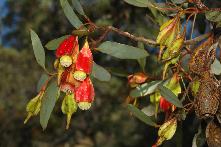 Buds and fruit of Eucalyptus dolichorhyncha in the Peter Francis Point Arboretum, Colerain, Victoria